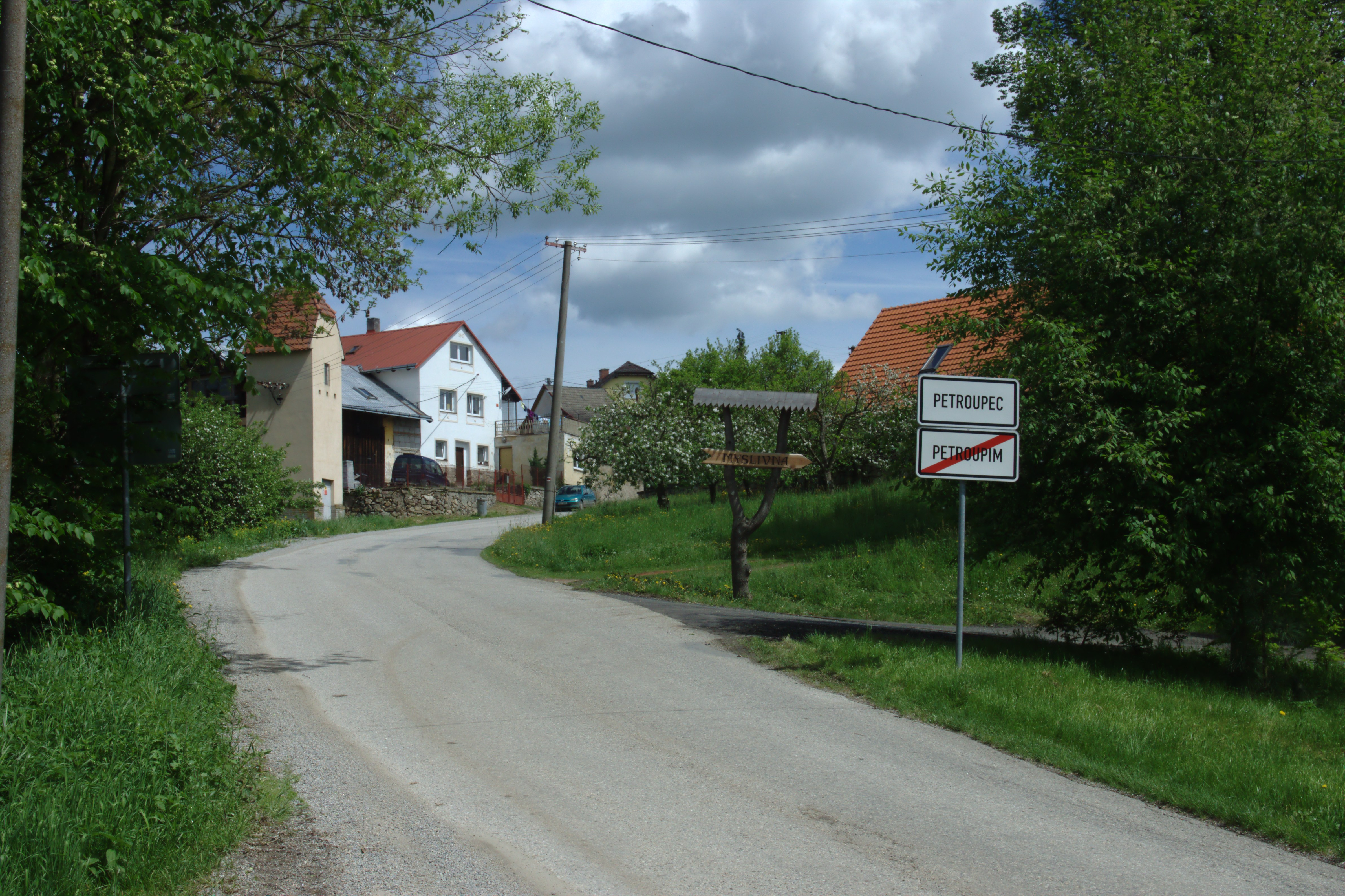 Arrival to the village of Petroupec from Petroupim, Central Bohemian Region, CZ